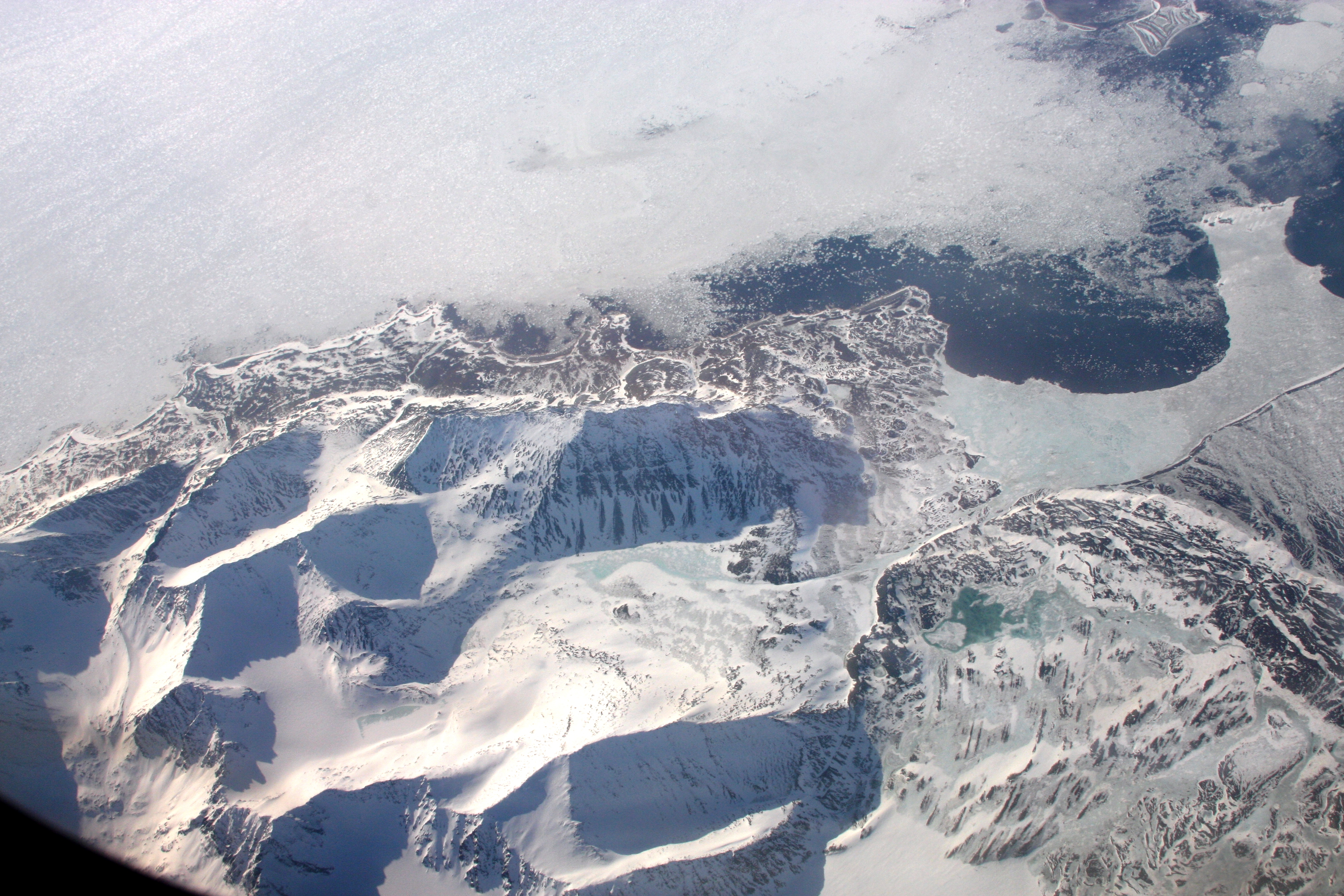 Part of the western coast of Wedel Jarlsberg Land, Svalbard. From the left is Torbjörnsenfjellet, Trulsenfjellet, Jahnfjellet, Gullichsenfjellet, Nottinghamfjellet and an sea ice bridge across to Kvartsittskjæra. In the upper right corner is Fjörholmen, one of Dunøyane islands.